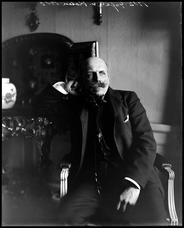 Swedish painter Robert Georg von Rosen (1843-1923)